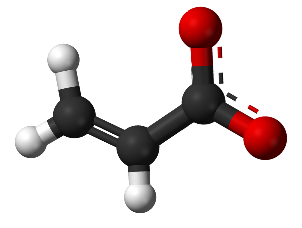 Acrylate-ion molecule model